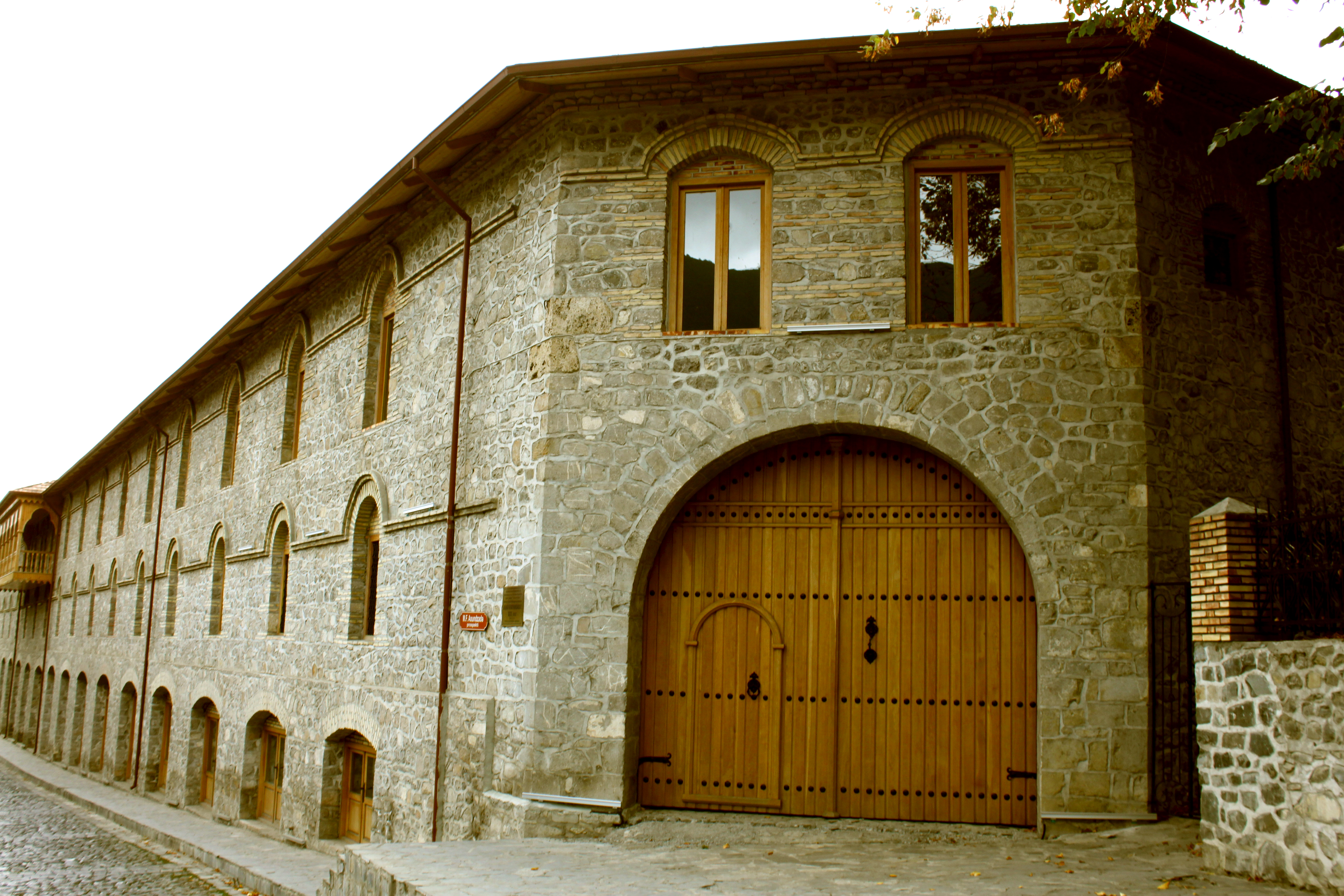 Ashagi kervansarai